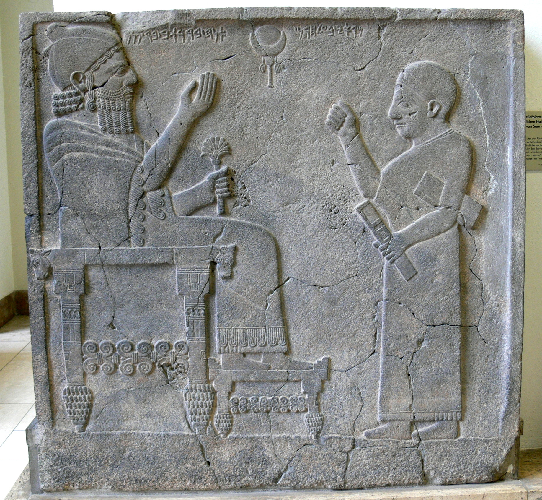 Museum of Ancient Near East ( Berlin ). Orthostate ( 730 BC ) from Sam'al showing prince Barrakib and a writer.